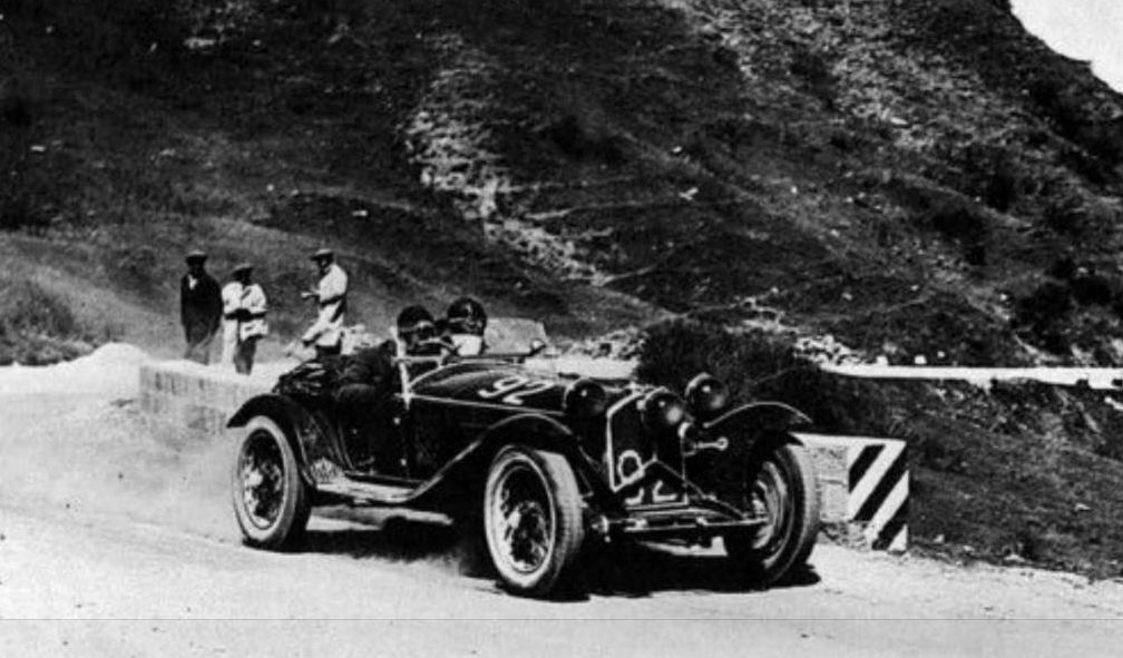 Giovanni Battista Santinelli & Umberto Berti in an Alfa Romeo 8C 2300 Corto at the Raticosa Pass near Firenze during Mille Miglia on 10 April 1932. They ended in 7th place overall.[1]